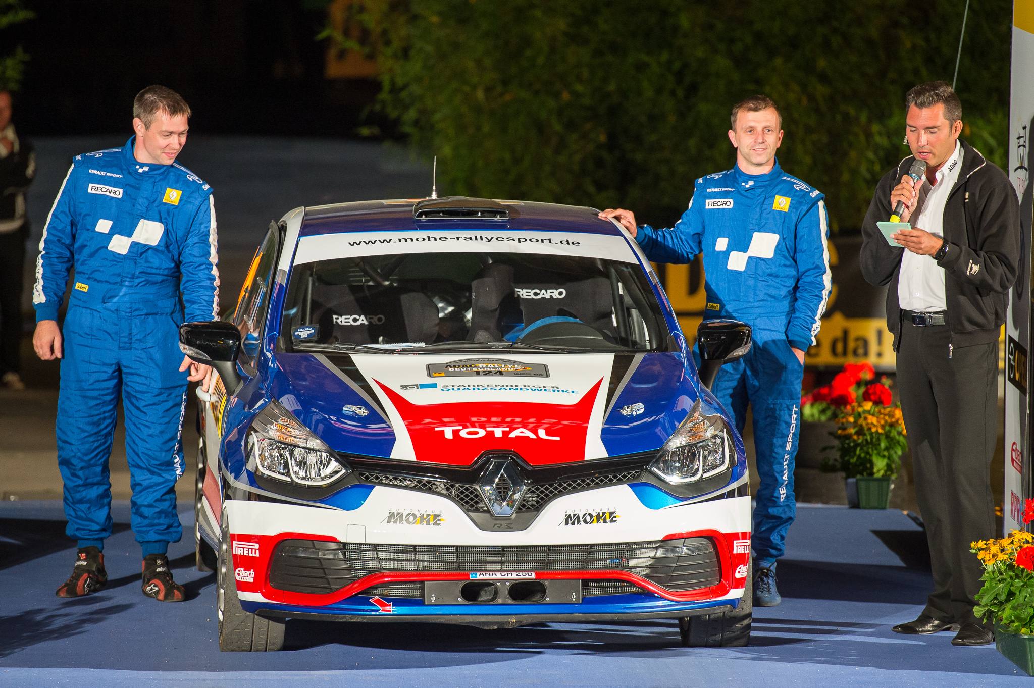 ADAC Rallye Deutschland 2014,Carsten Mohe,Ceremonial Start,FIA,FIA World Rally Championship,Motorsport,Rally,Rallye,Renault Clio R3T,Sebastian Walker,Showstart,WRC,Zeremonienstart